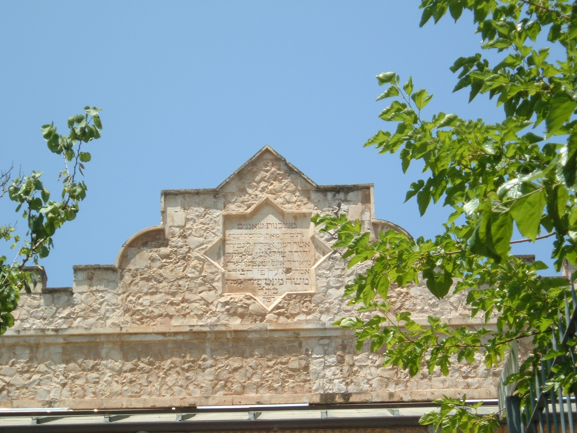 an inscription commemorating Yehuda Tura on a house in Mishkenot Shaananim Jerusalem